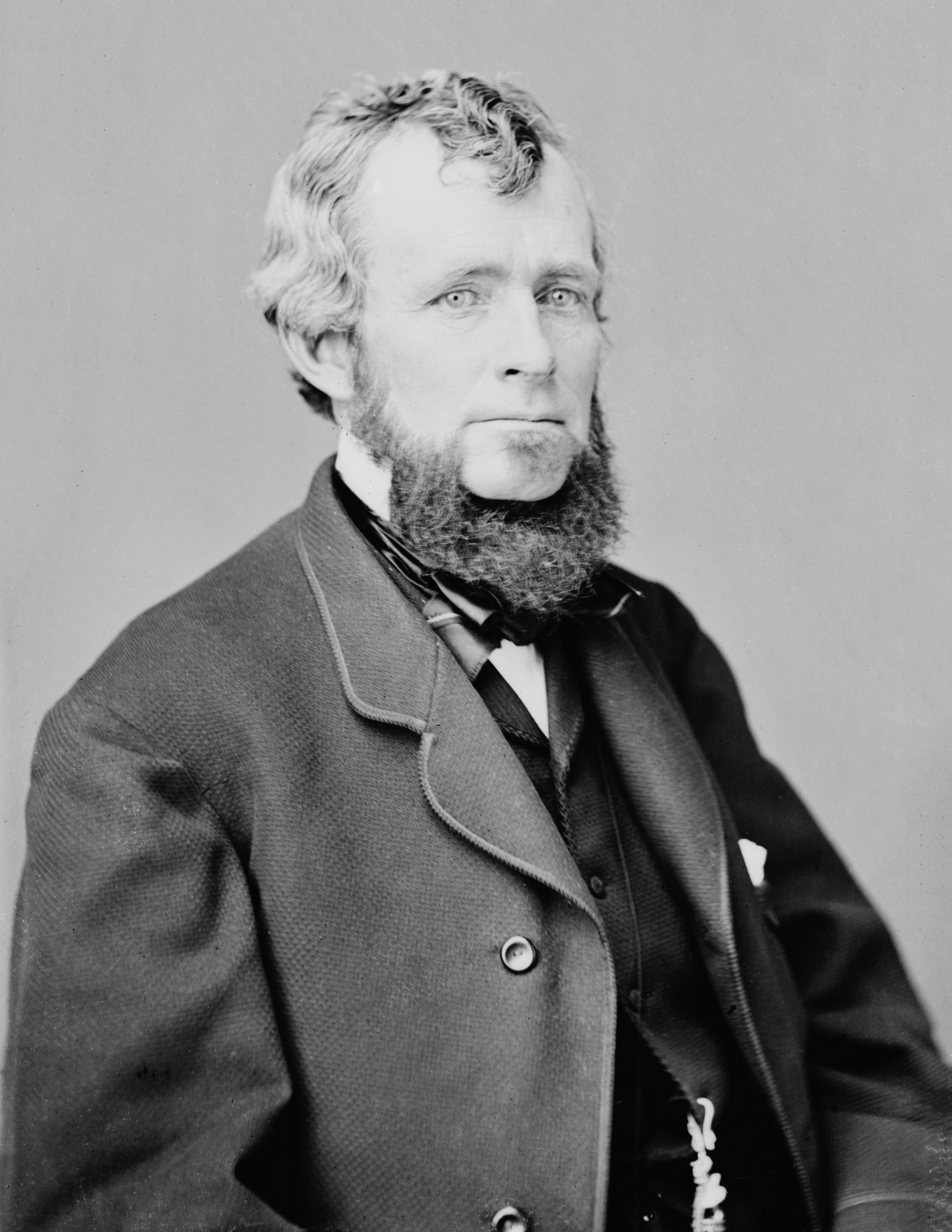 George R. Riddle. Library of Congress description: "Geo. Read Riddle"